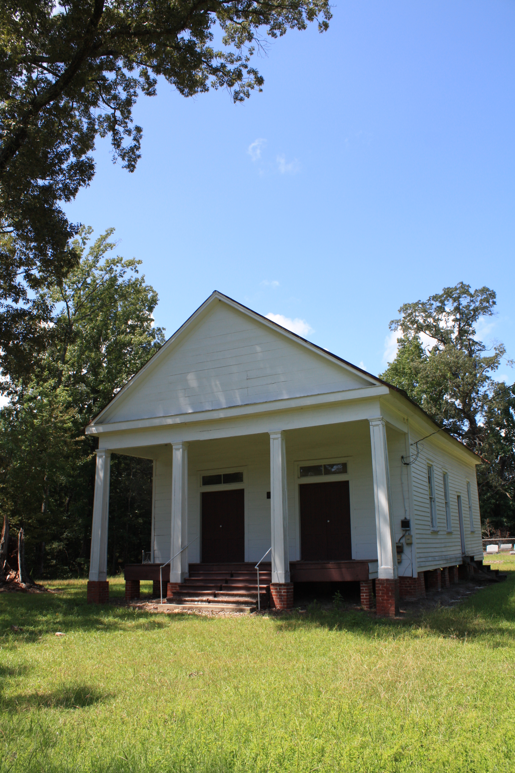 The Ackerville Baptist Church of Christ in Ackerville, Wilcox County, Alabama. Built in 1848.